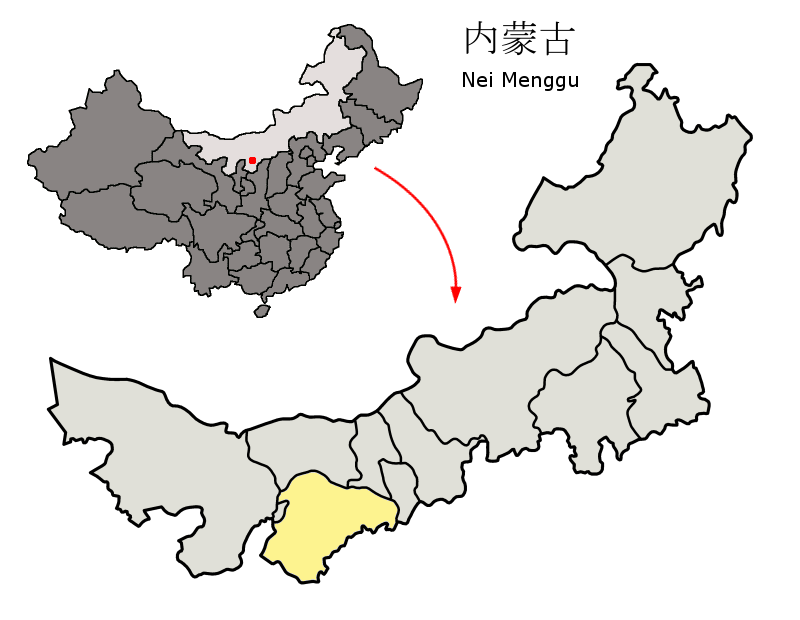 Location of Ordos Prefecture (yellow) within Inner Mongolia Autonomous Region of China Map drawn in november 2007 using various sources, mainly : Inner Mongolia Autonomous Region administrative regions GIS data: 1:1M, County level, 1990 Inner Mongolia Counties map from